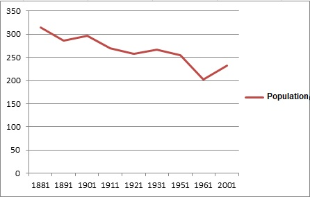 Chart showing the population of Stanton over time. Made using Excel.